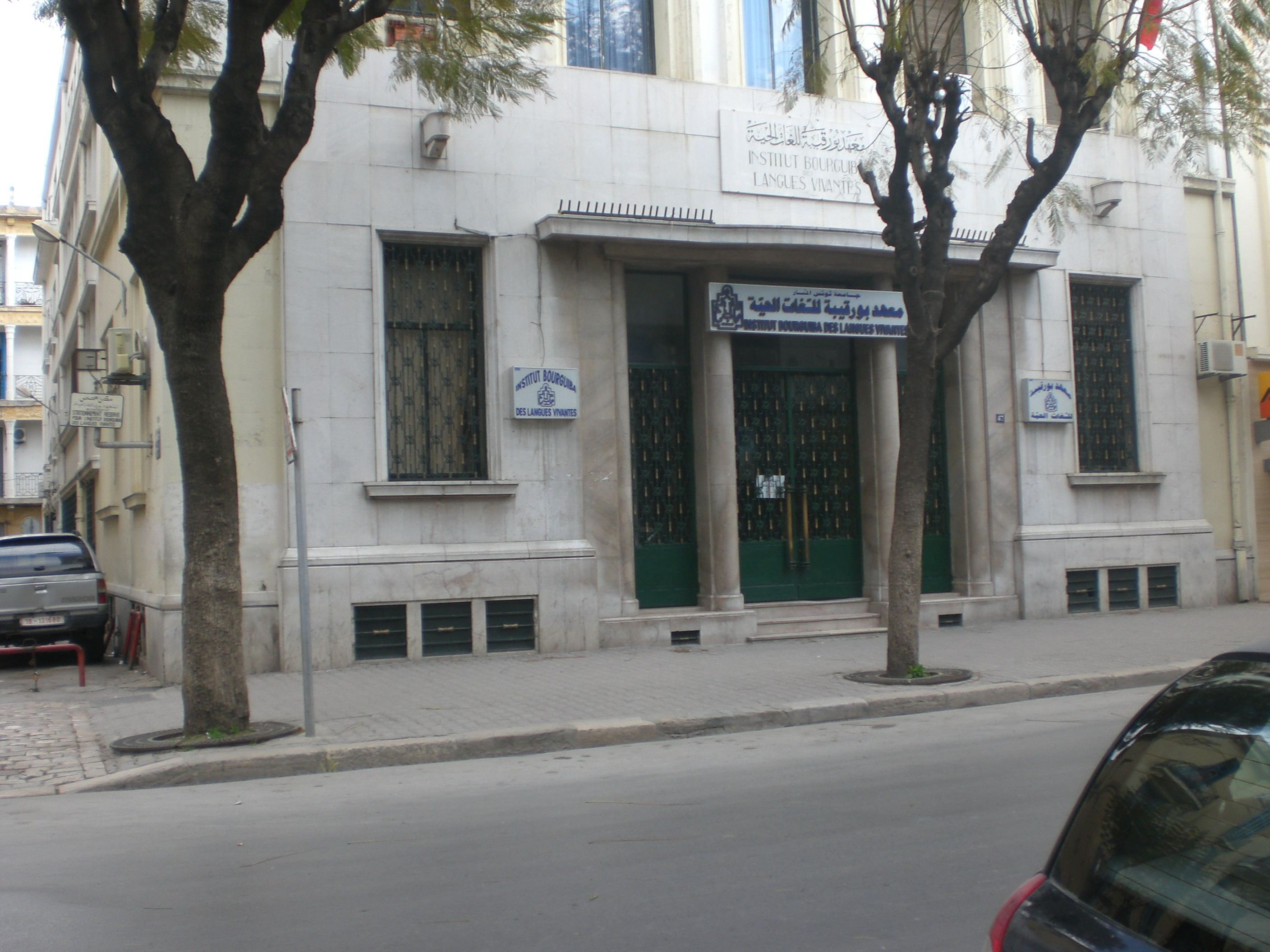 A Tunisian high School, Bourguiba School - Tunis